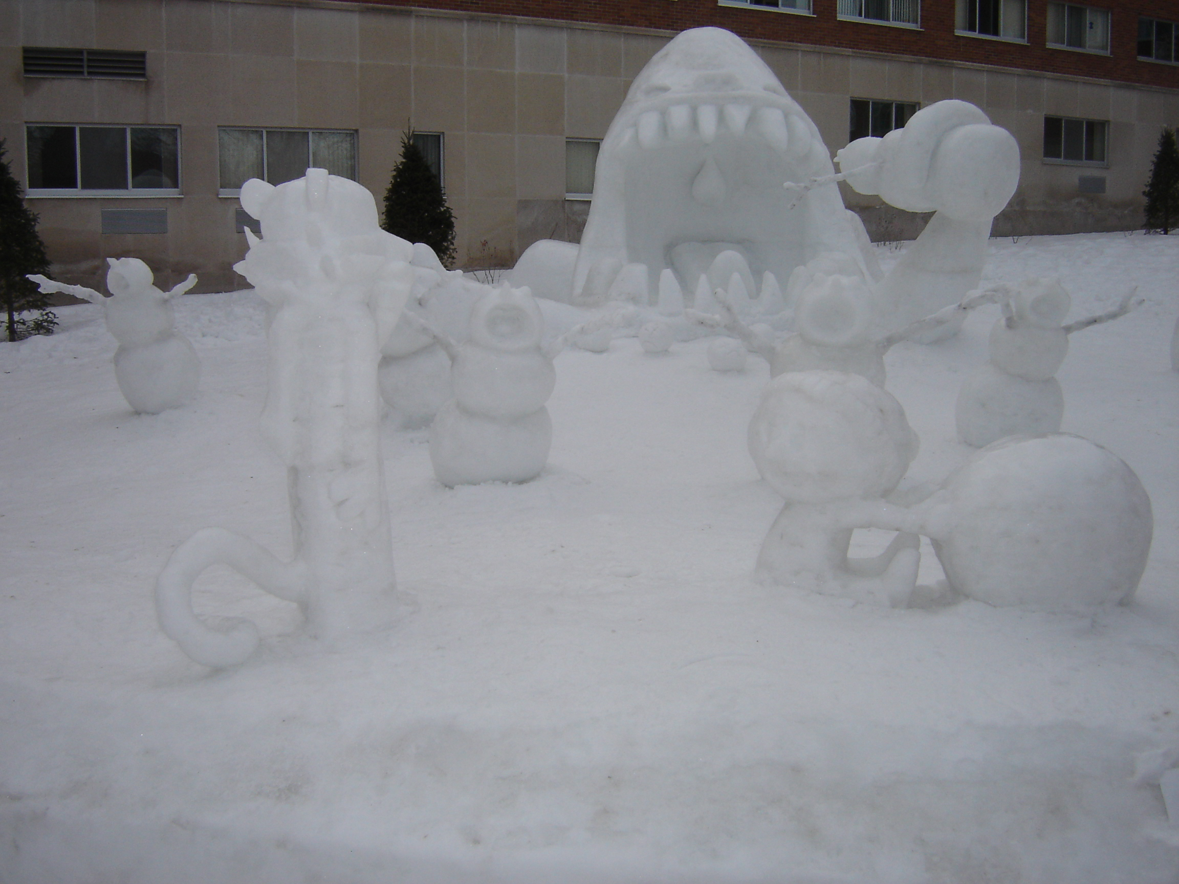 Photo of a Calvin-and-Hobbes-esque snow monster sculpture taken at the 2006 Michigan Tech University Winter Carnival - Tgwaltz 13:31, 5 November 2006 (UTC)tgwaltz